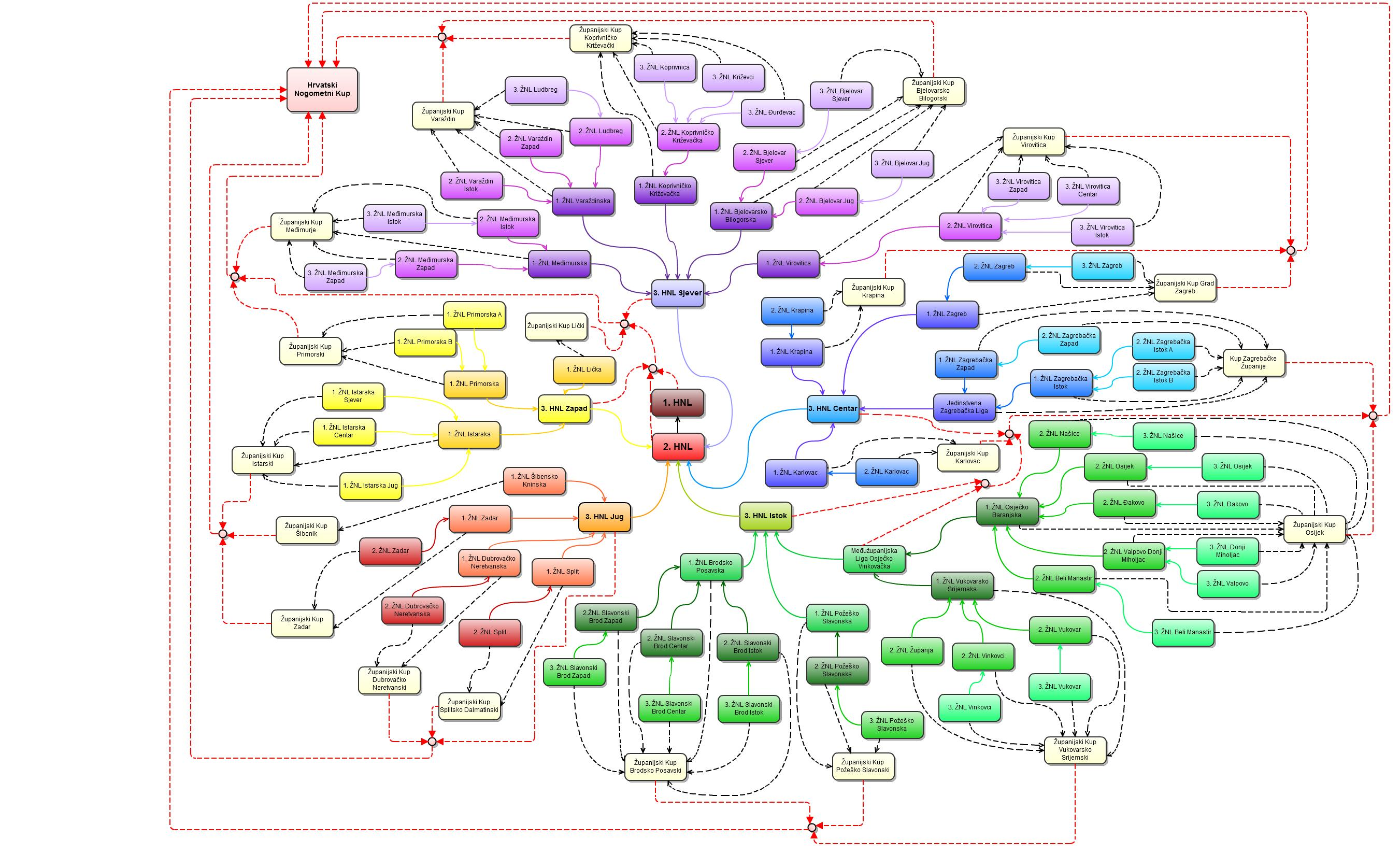 Croatian Football League System